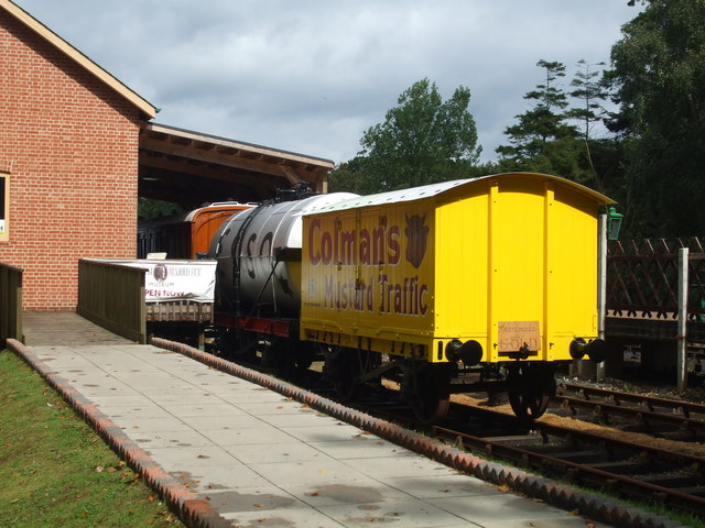 Spare stock at the William Marriott museum